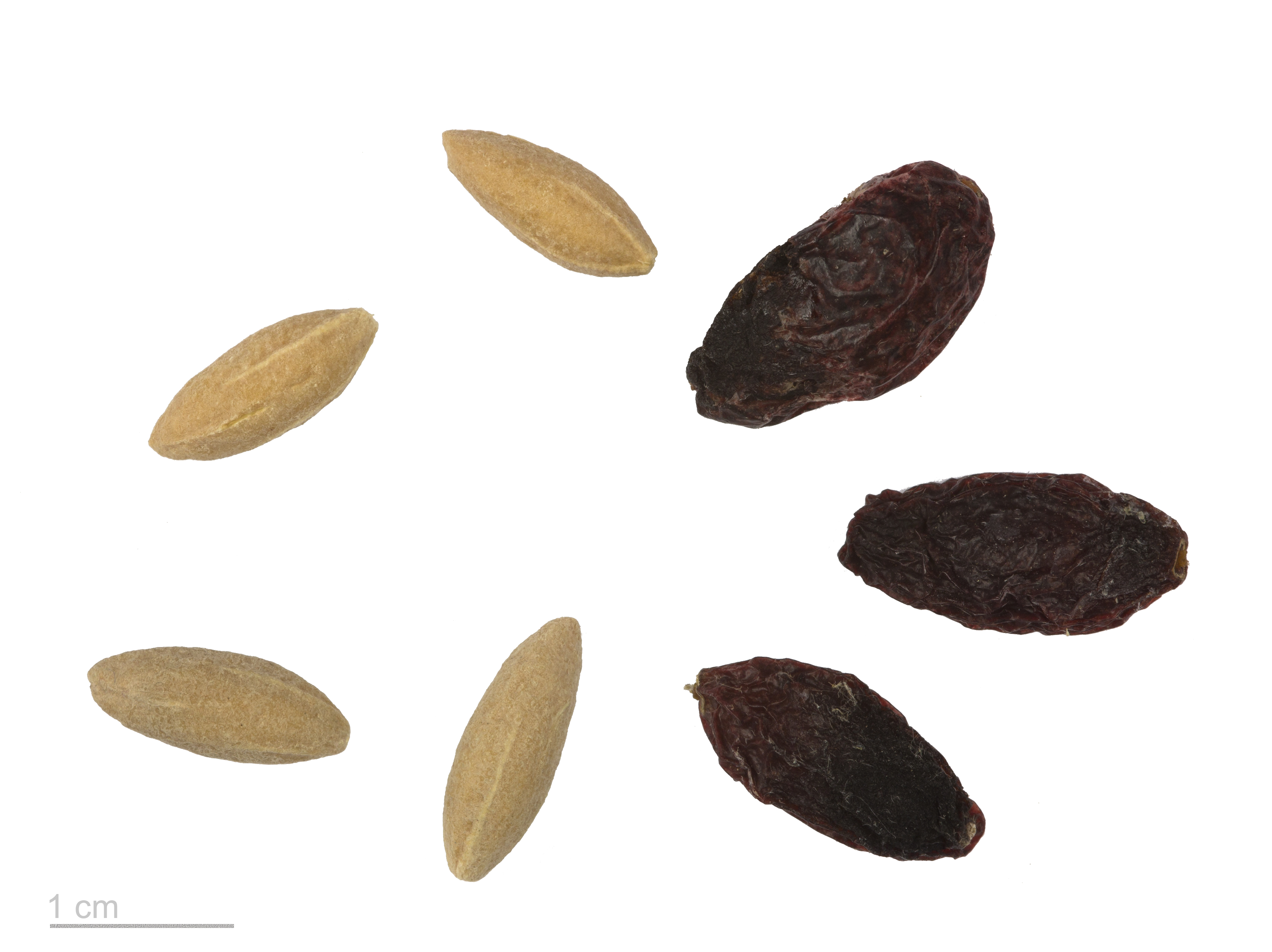 Cornus mas, Cornelian cherry, seeds